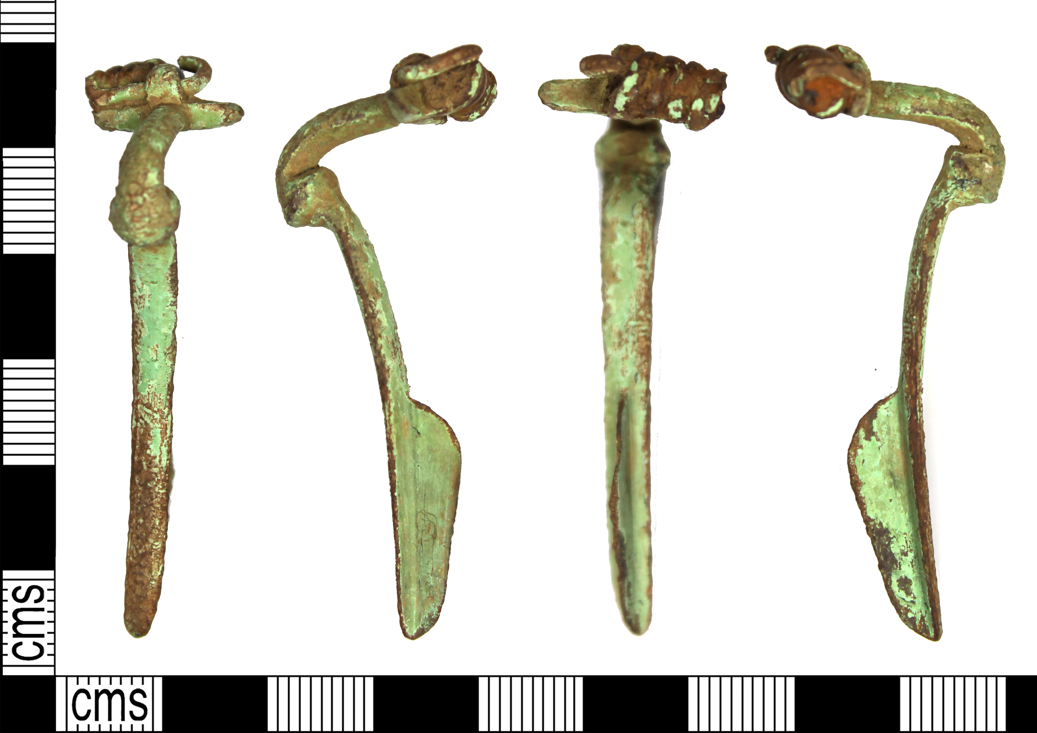 An incomplete Late Iron Age/ Early Roman (AD 1-50) Knickfibel brooch, a continental type using the Colchester spring gear and with little wings (Hattatt, 1987; Brooches of Antiquity, p.30, ref.754). It is missing the pin and half the coils (about 4), and the curl of the catchplate. The brooch measures 59.38mm in length and weighs 7.92g. The wings span 15.66mm and are plain and undecorated. They are flat to the reverse (visible where half the coils are missing) but also thickened and angled slightly when viewed underneath. The surviving coil extends slightly outside the edge of its wing. The chord has been bent around, where the missing coils would have been. The remaining coils (four) carry traces of iron staining, and further iron staining is apparent inside them. The bow projects forward, lozenge-shaped in cross-section (4.12x3.43mm), at c.90 degrees. Although worn, decoration in the form of a central mid-rib with tiny transverse grooves is apparent. At its sharply-angled bend is a circular moulding (7.19x7.09mm) with slimmer moulded rib below. The lower bow is plain, pointed-oval in cross-section (5.152.48mm) and narrows slightly to the rounded end, 3.75mm wide. To the reverse the catchplate extends from the centre of the lower bow and is c.25mm long and max.8.28mm deep. Hattatt comments this type is mainly centred on the Rhineland and was of comparatively short life, covering the first half of the first century AD. Bayley and Butcher further comment (2004, Roman Brooches in Britain: A technological and typological study based on the Richborough collection, p 148) that this type of brooch is likely to have come with the army since they are common on the forts of the Rhine-Danube frontier. Cf. Hattatt no.754. Other Knickfibel brooches on this database are NLM4673 , NMS-11E8C1 , LIN-3EB844 and NMS-B7F193 .